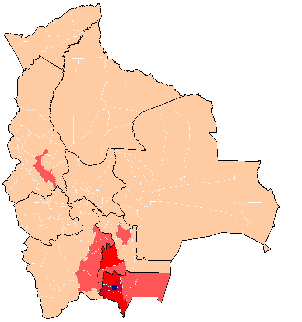 The underlying map outlines are from: By Daan (Own work) [GFDL ( CC-BY-SA-3.0 ( or Public domain], via Wikimedia Commons; the overlay composition and other graphics are by DGFritz